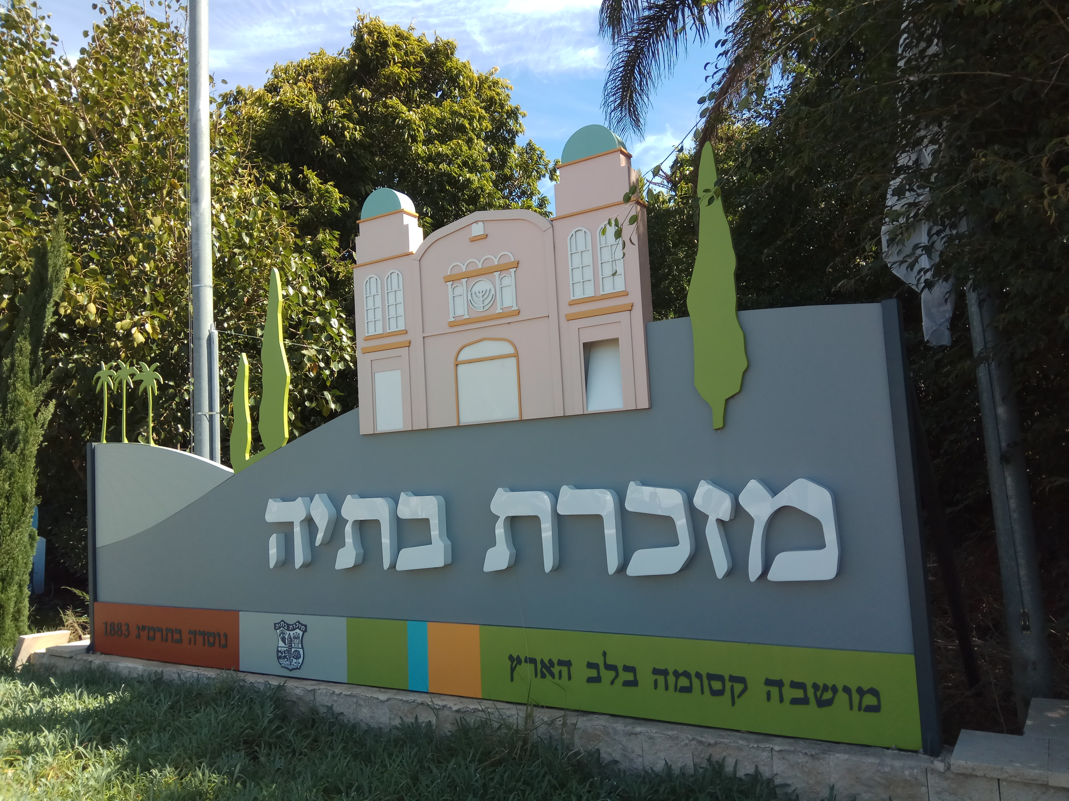 Mazkeret Batya